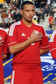 Iran v Lebanon at the 2015 AFC Asian Cup qualifiers.